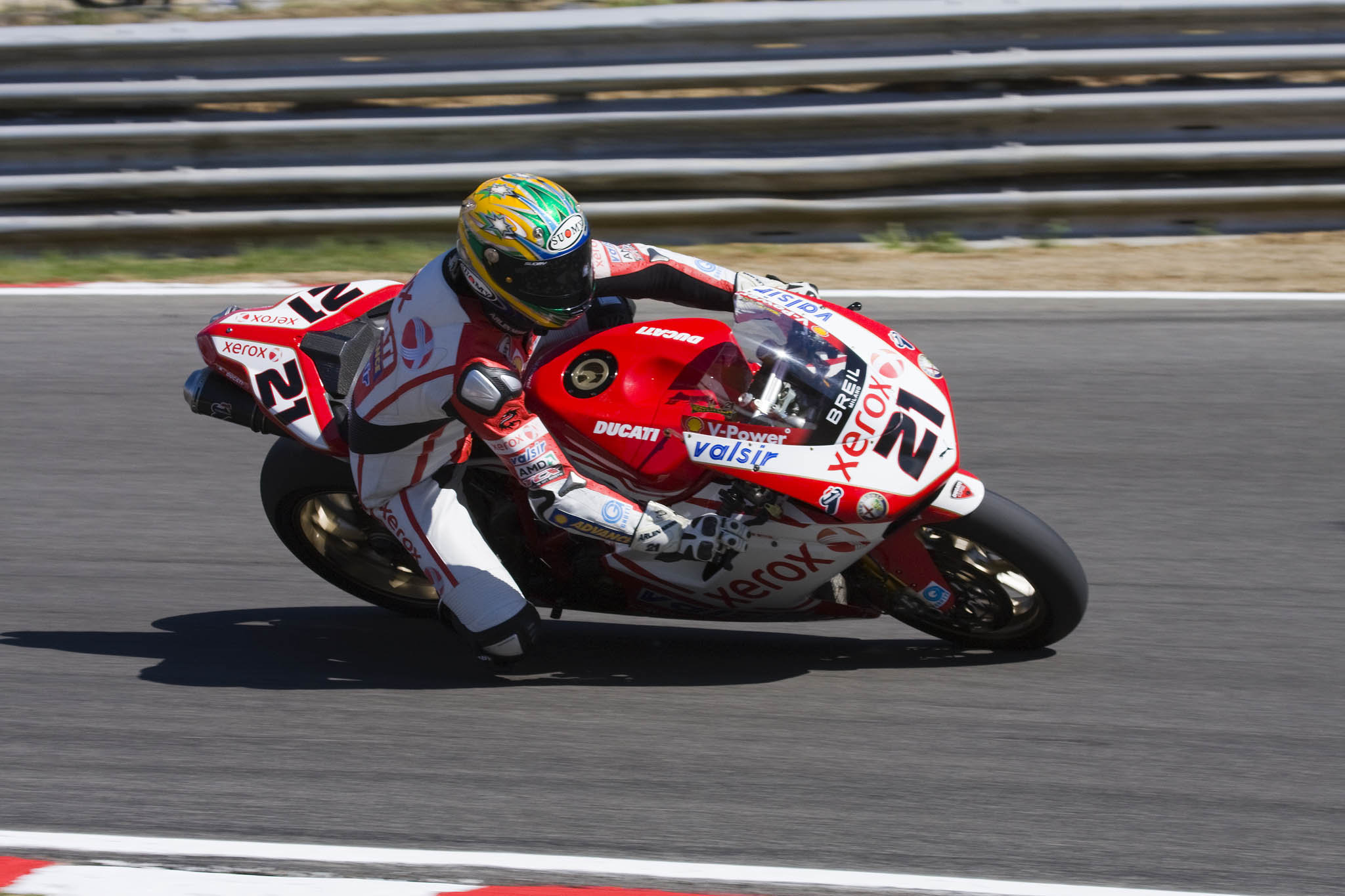 Brands Hatch (West Kingsdown, Kent, England), Brands Hatch Circuit, August 1, 2008. 2008 Superbike World Championship, Round 10, Practice Day: #21 Troy Bayliss' Xerox Ducati 1098 F08 at Druids Bend.